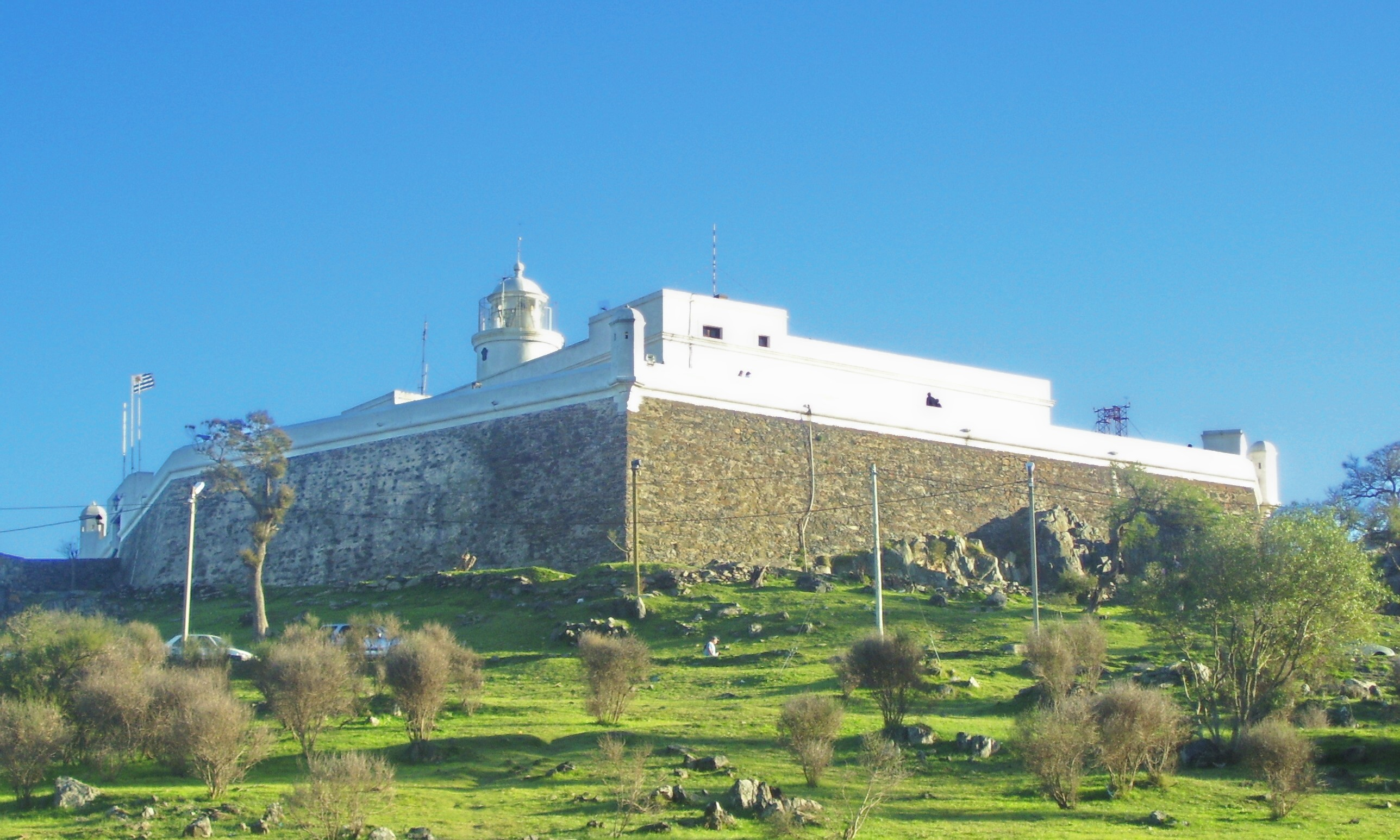 View of the Fortress General Artigas, located at the top of Cerro de Montevideo, Eastern Republic of Uruguay.